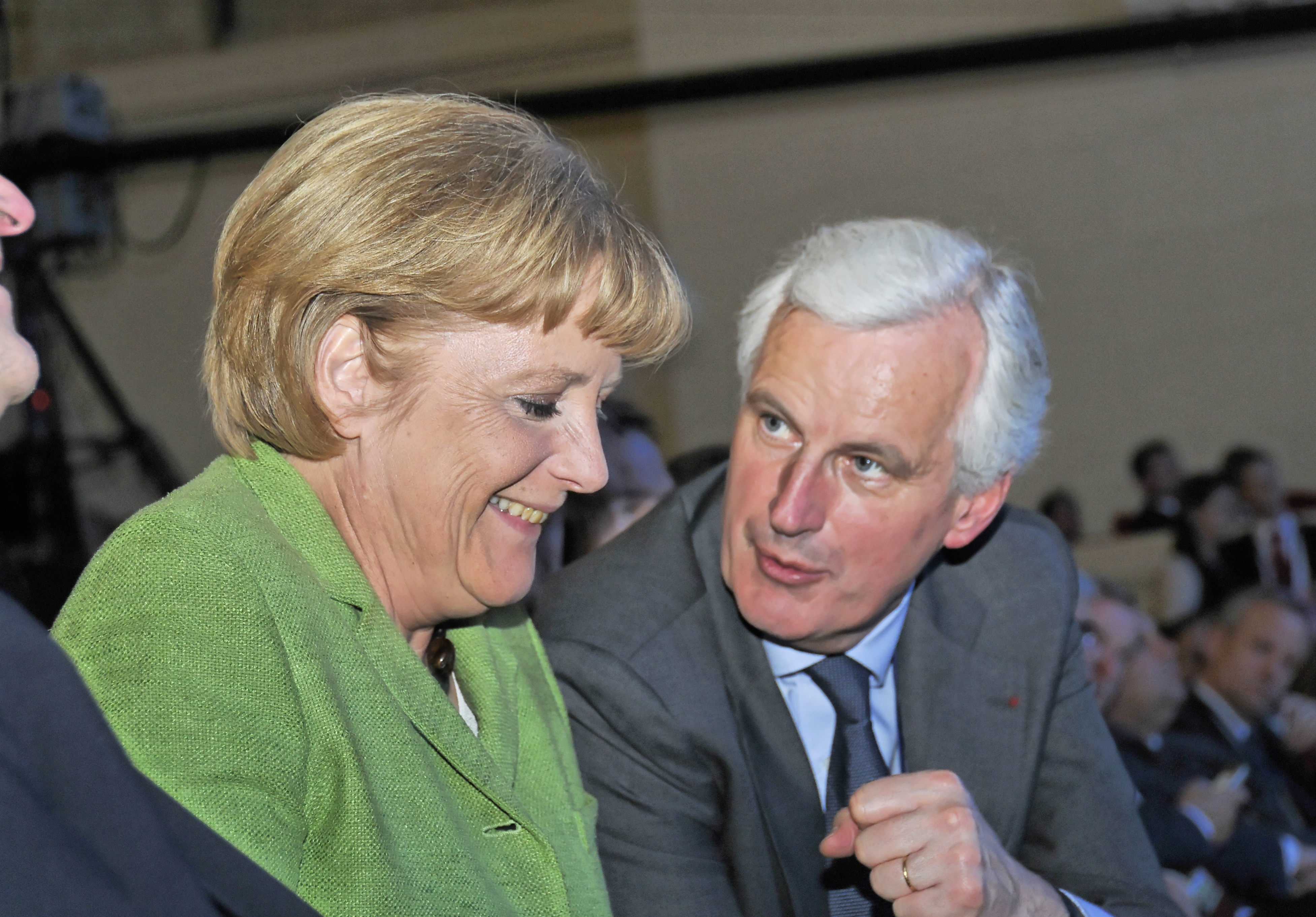 EPP Congress Warsaw